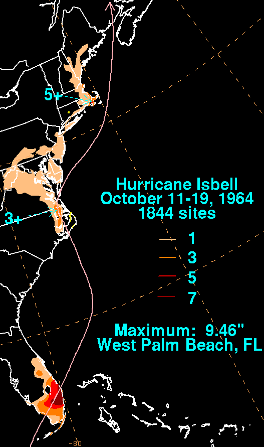 Rainfall produced by Hurricane Isbell during October 1964.